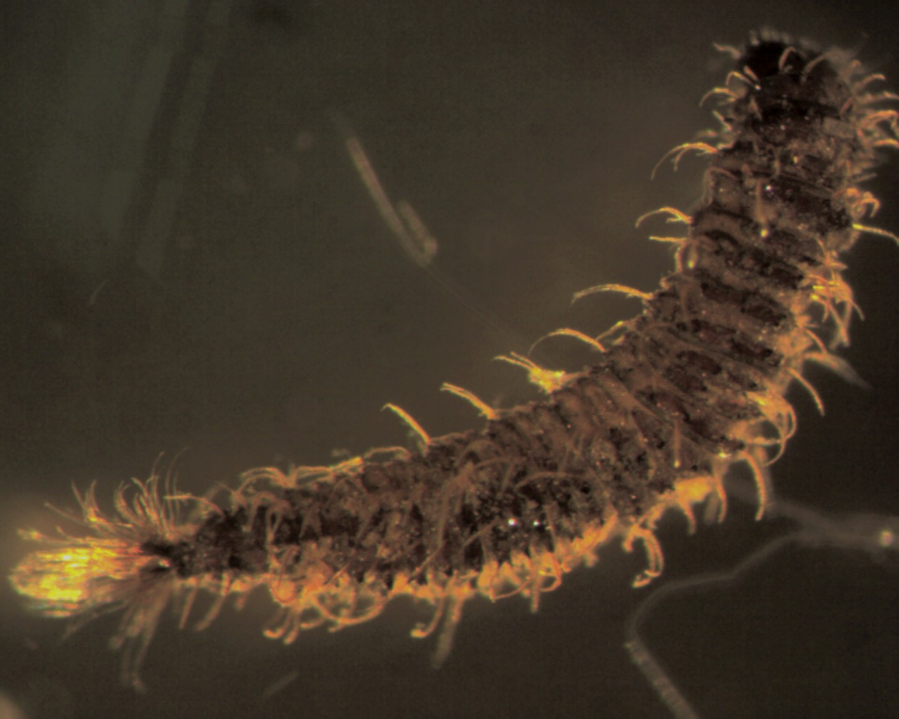 O: Diptera F: Psychodidae